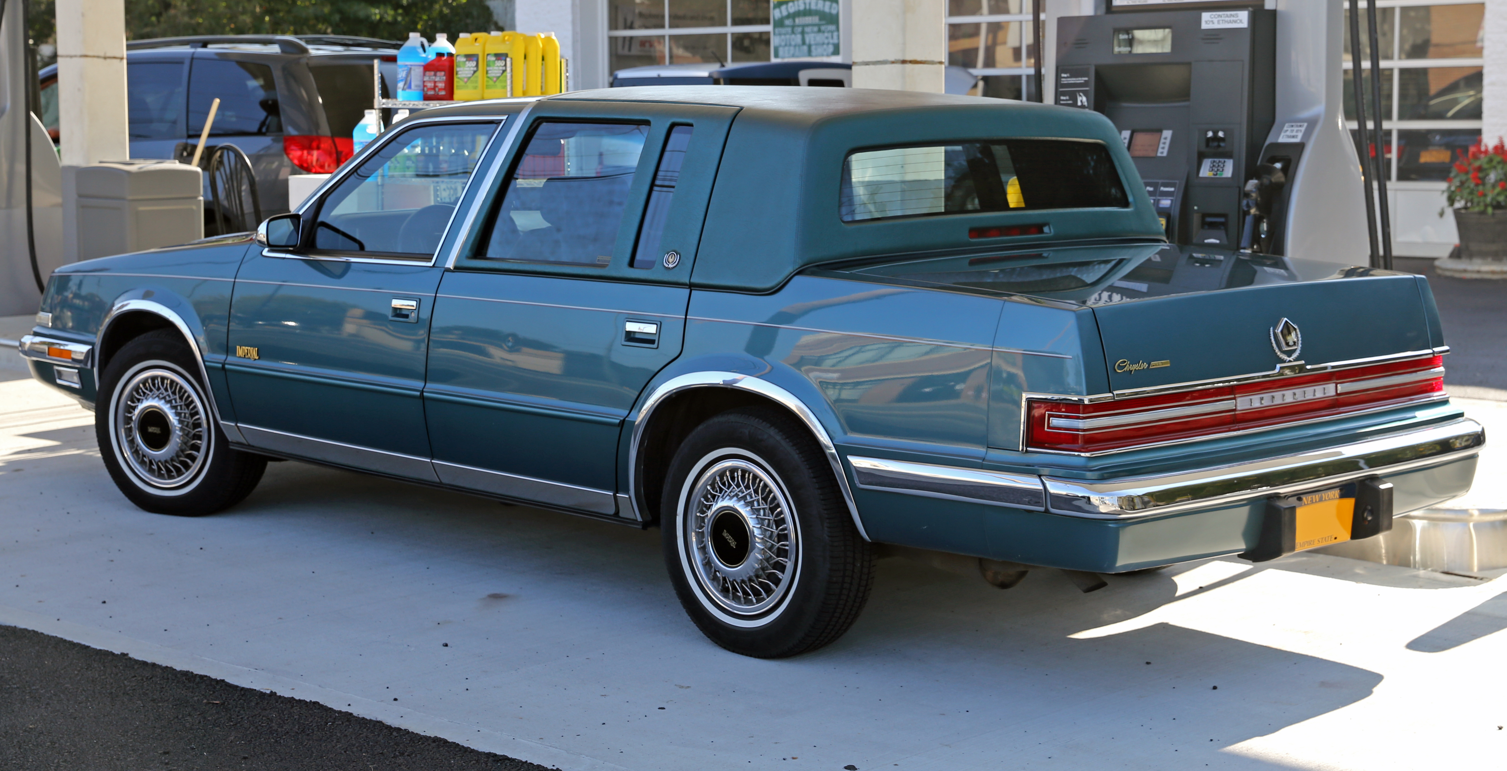 Rear left view of a 1993 Chrysler Imperial in teal, recently purchased from its ninety-something original owner.